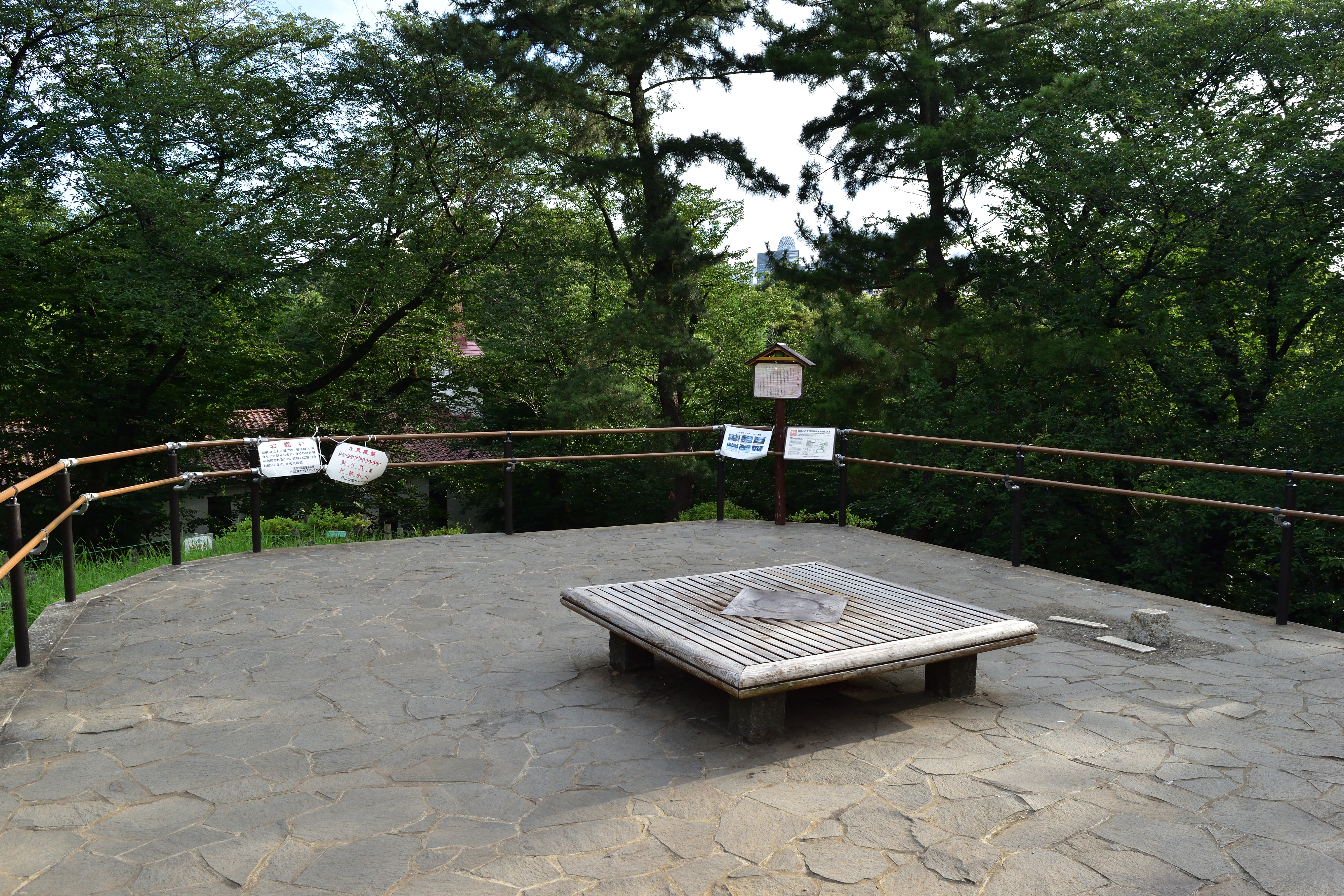 Toyama Park Mt. Hakone summit view from the northeast